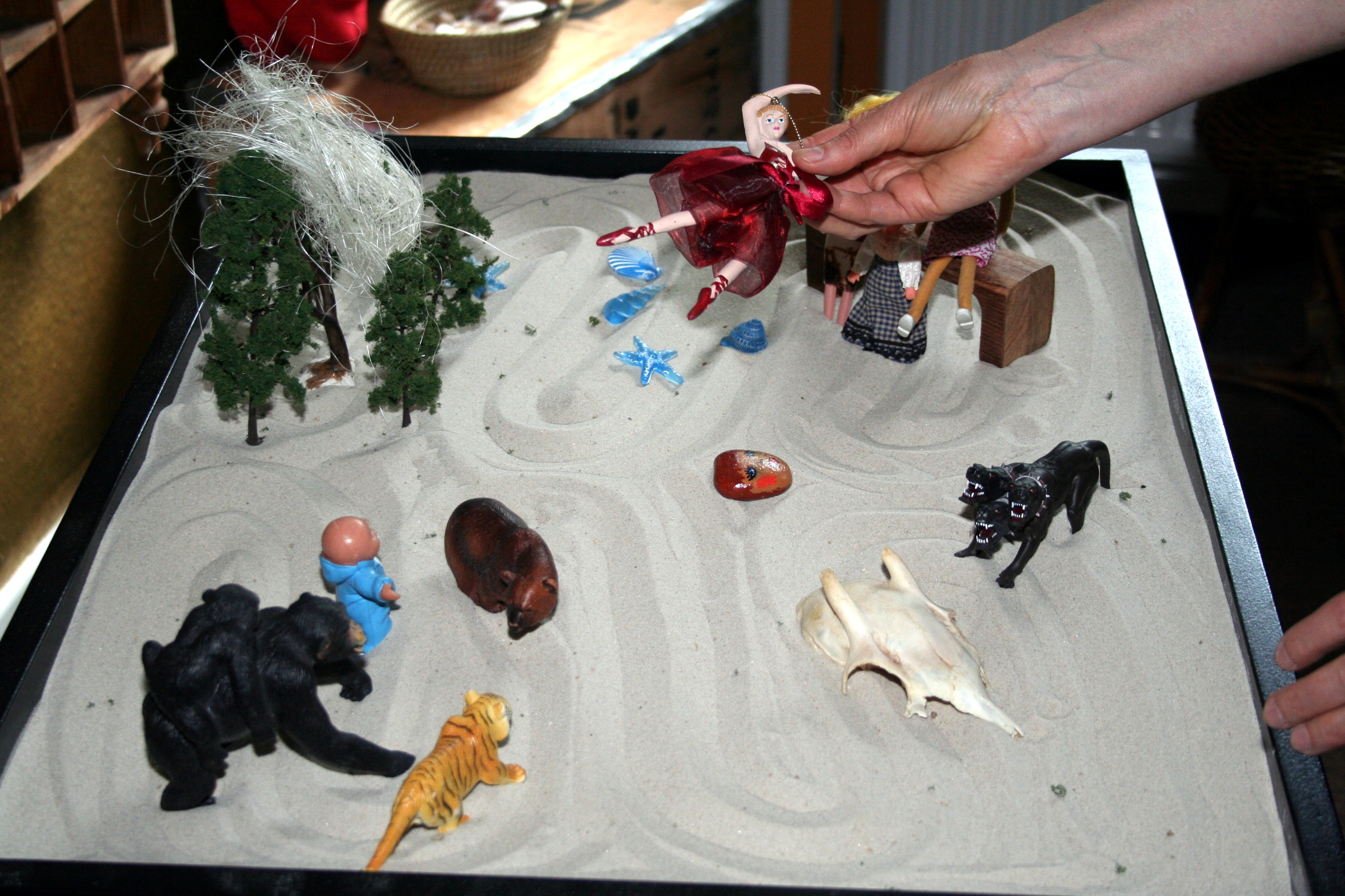 Sand Play Therapy / Dora M. Kalff